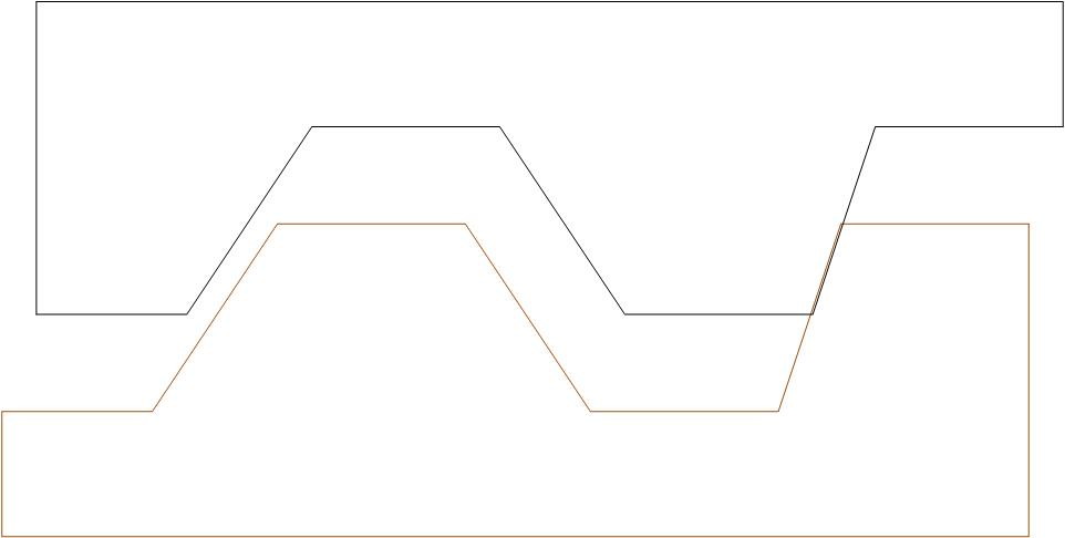 Misfit between the upper and lower fracture surfaces